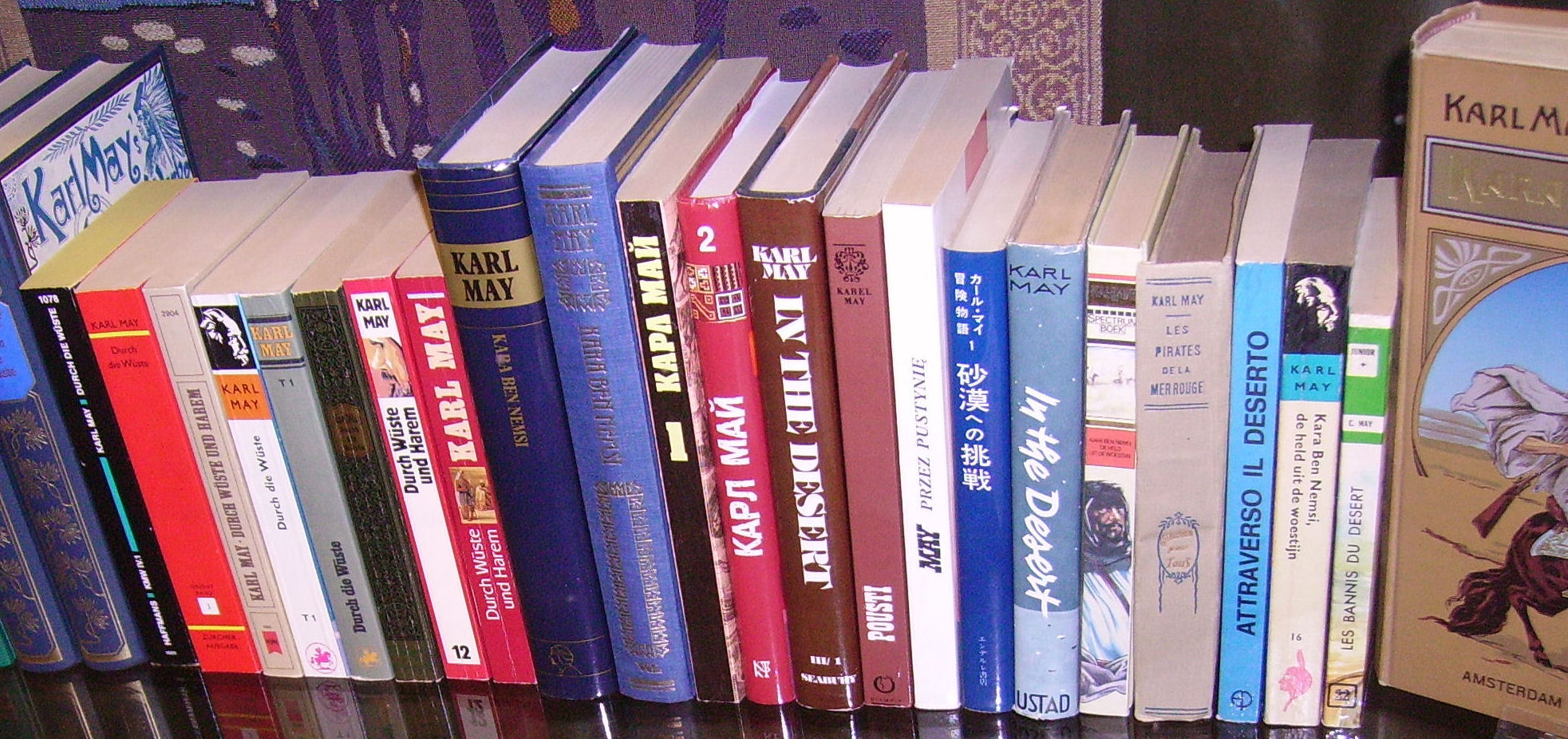 Books of the German author Karl May